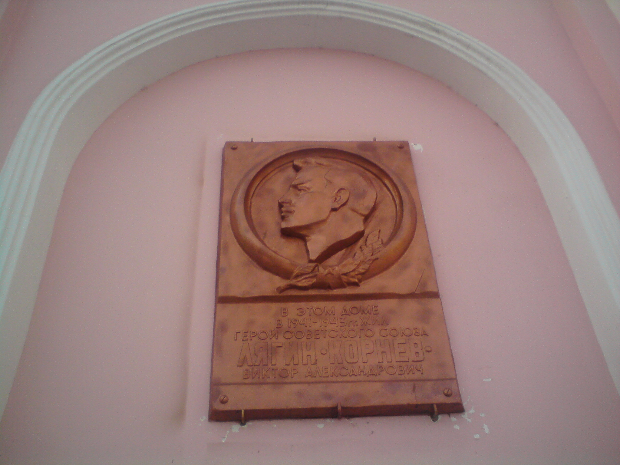 Plaque Victor Lyagin, Mykolaiv